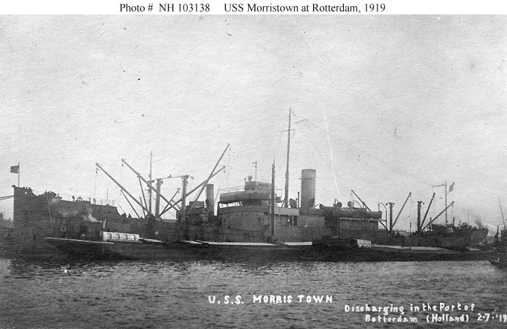 United States Navy cargo ship USS Morristown (ID-3580) discharging cargo at Rotterdam, the Netherlands, on 7 February 1919